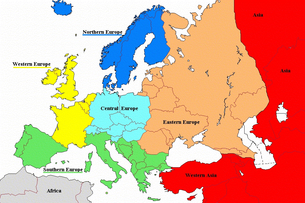 Regions of Europe with labels and corrected coloring